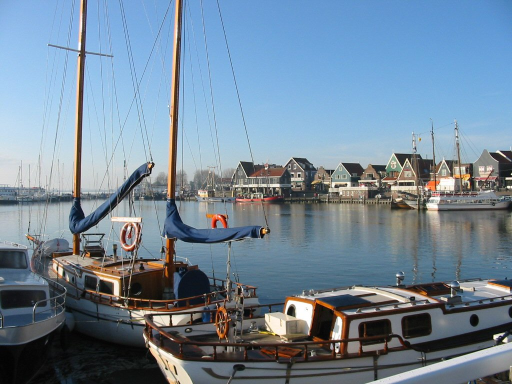 The harbour at Vollendam, in the Netherlands